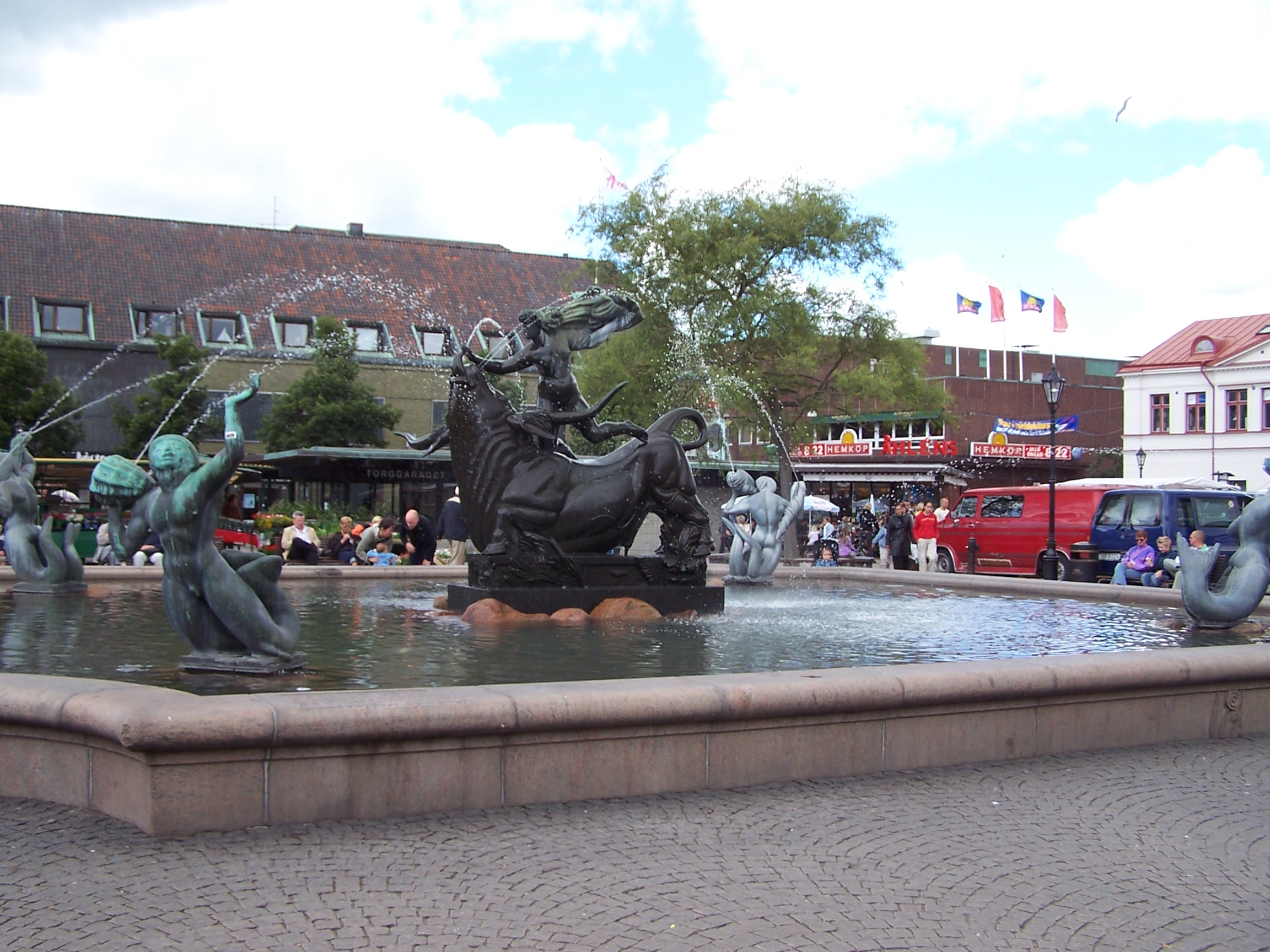 "Europa och Tjuren" (Europe and the bull), fountain art created by Carl Milles